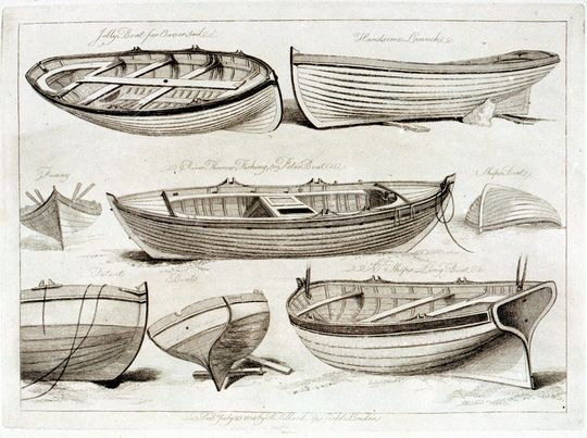 Jolly boat for oars or sail. Handsome launch; Tunny; River Thames fishing or Peter Boat; Ships Boat; Patent Boats; A ship's Long Boat